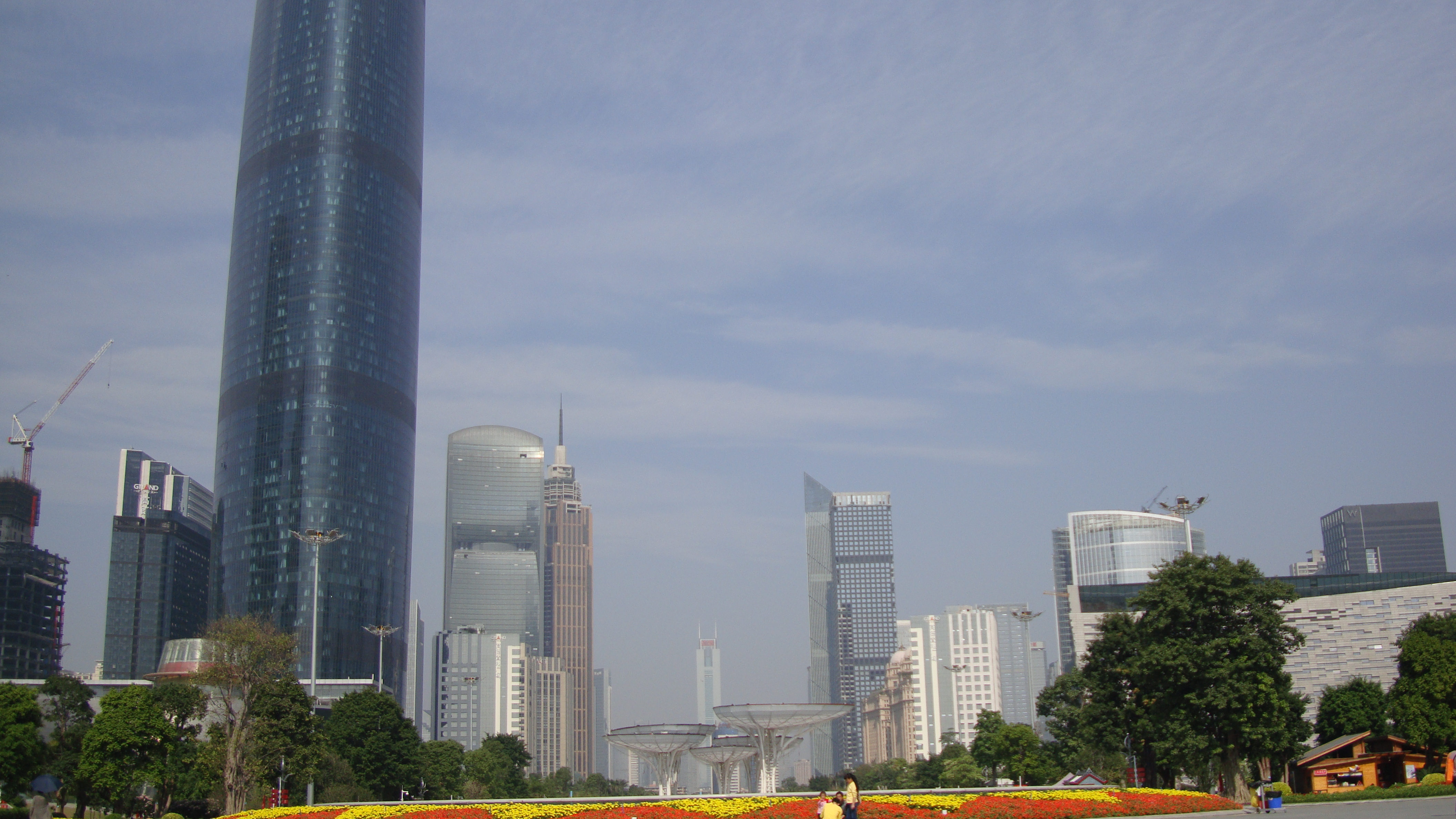 Front View of Zhujiang Xincheng